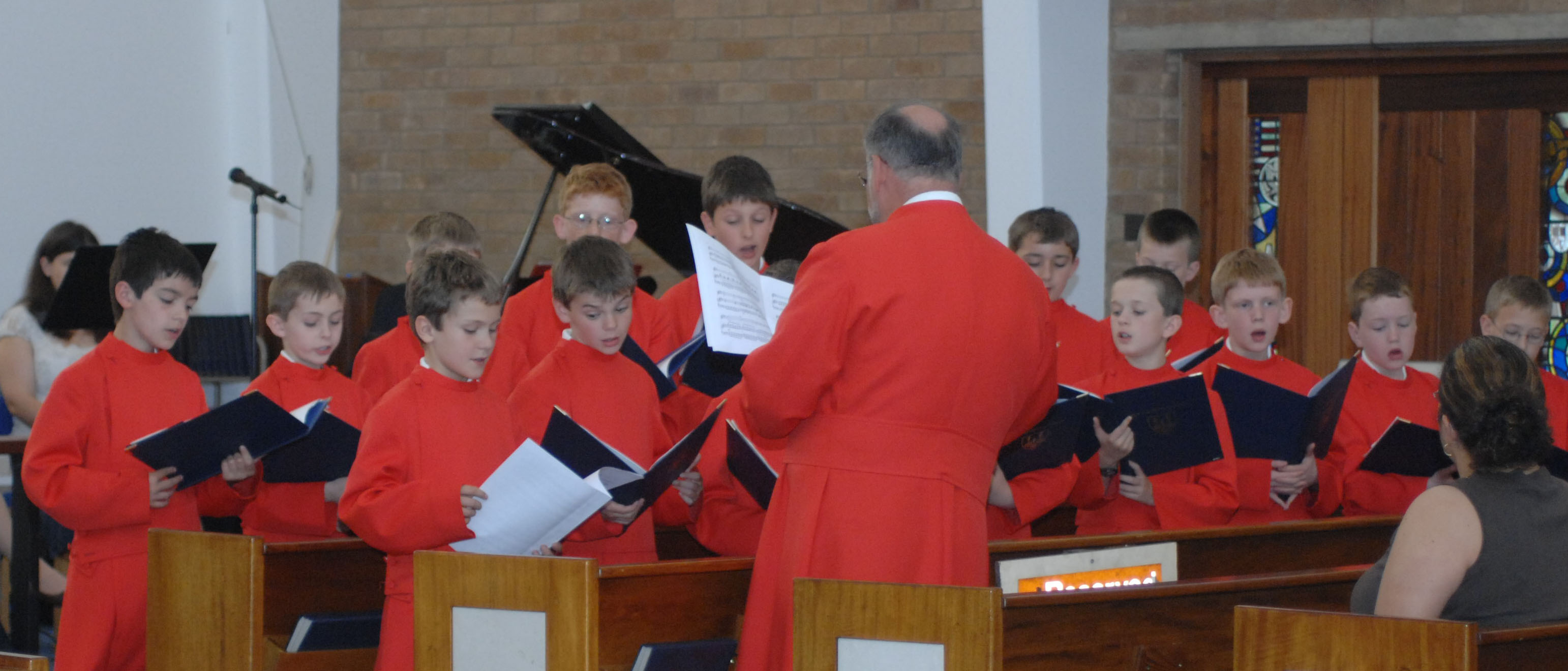 Boys of the Ely Cathedral Choir performing in RAF Mildenhall Chapel